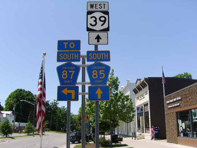 Sign post in Forestville, New York, showing New York State Route 39 running concurrently with Chautauqua County Route 85.